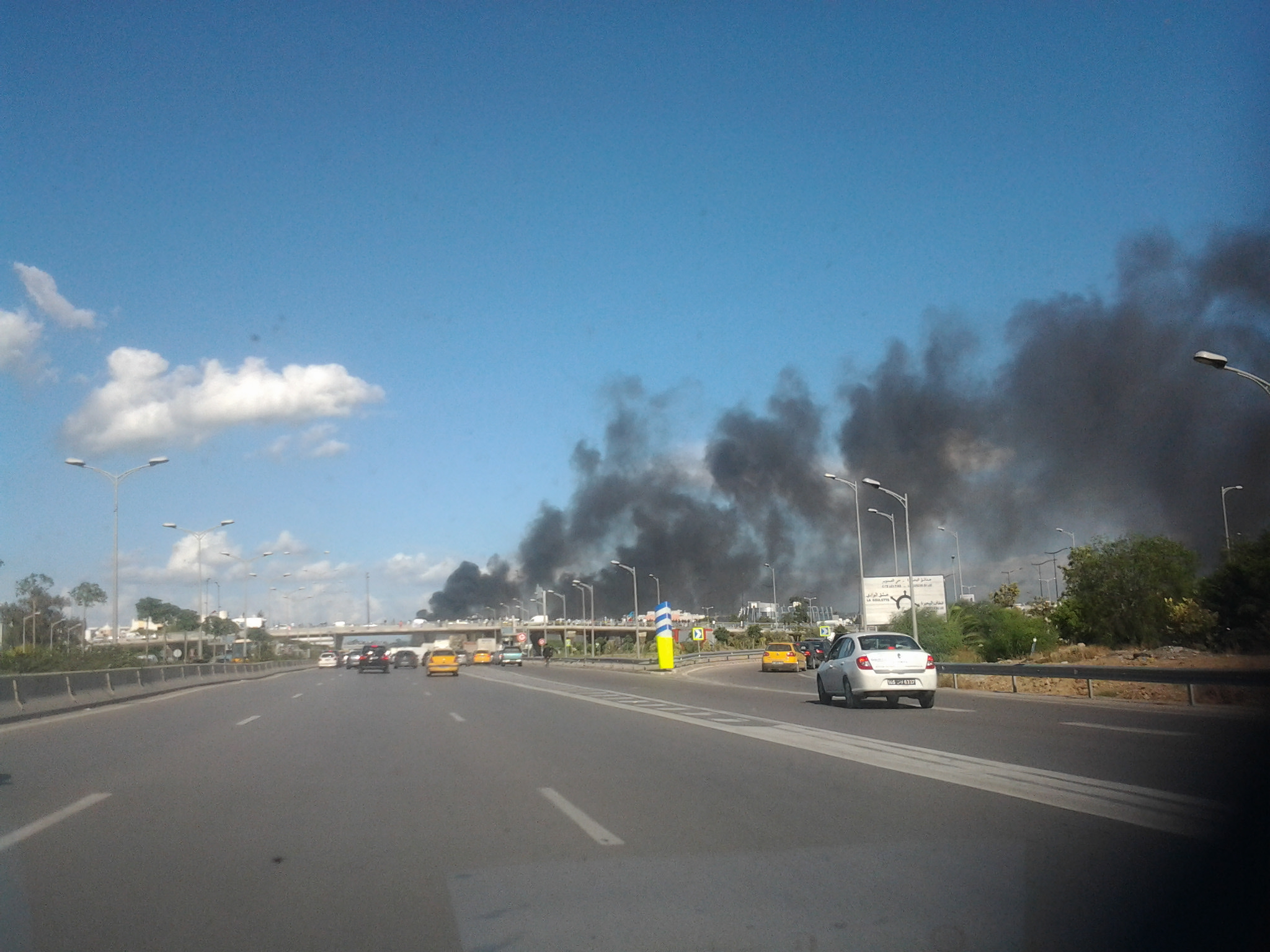 smoke coming from the American Embassy Tunis. Ain Zaghouane Road during the September 14th event.